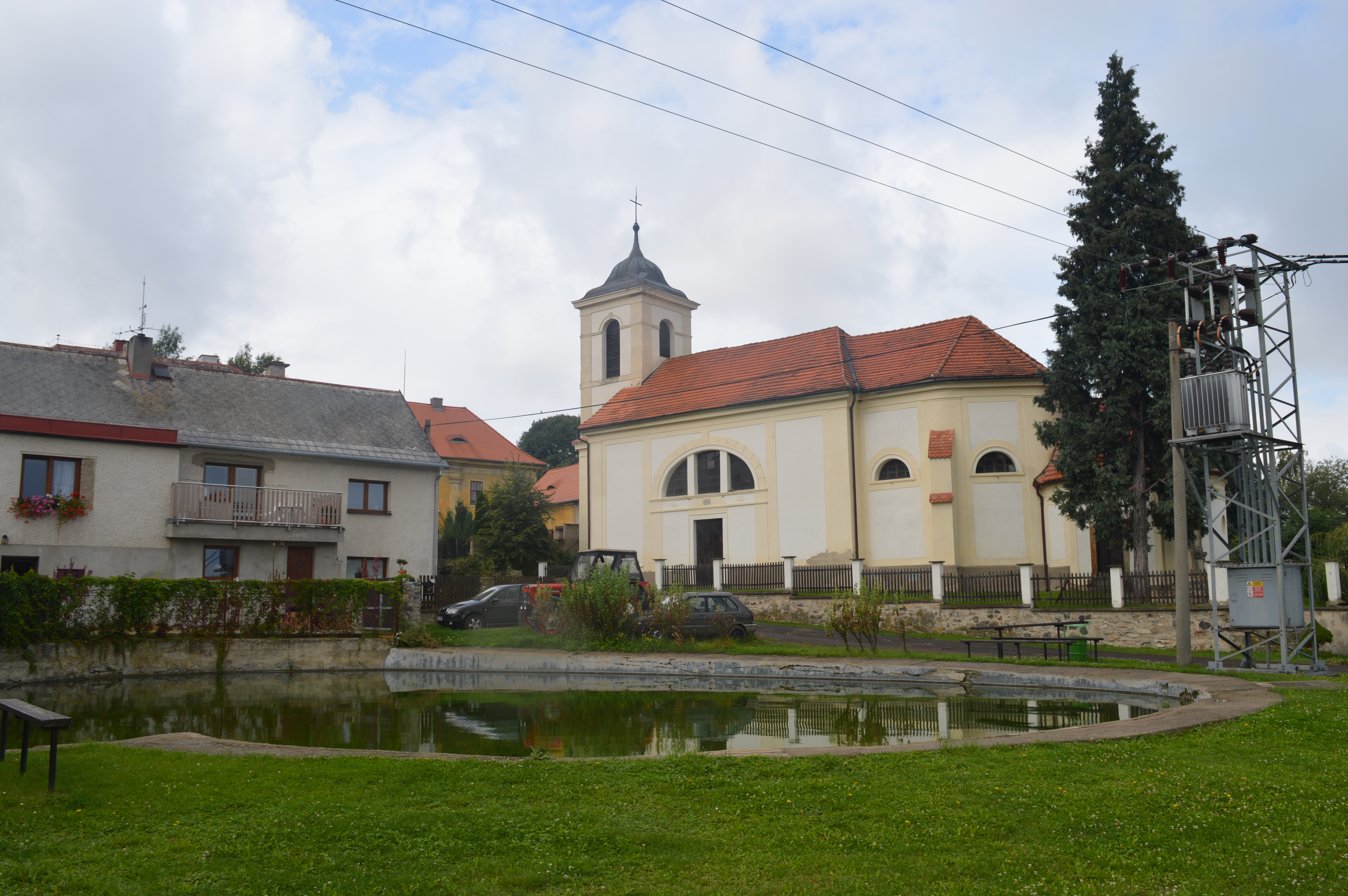 Church of the Finding of the True Cross in Žim